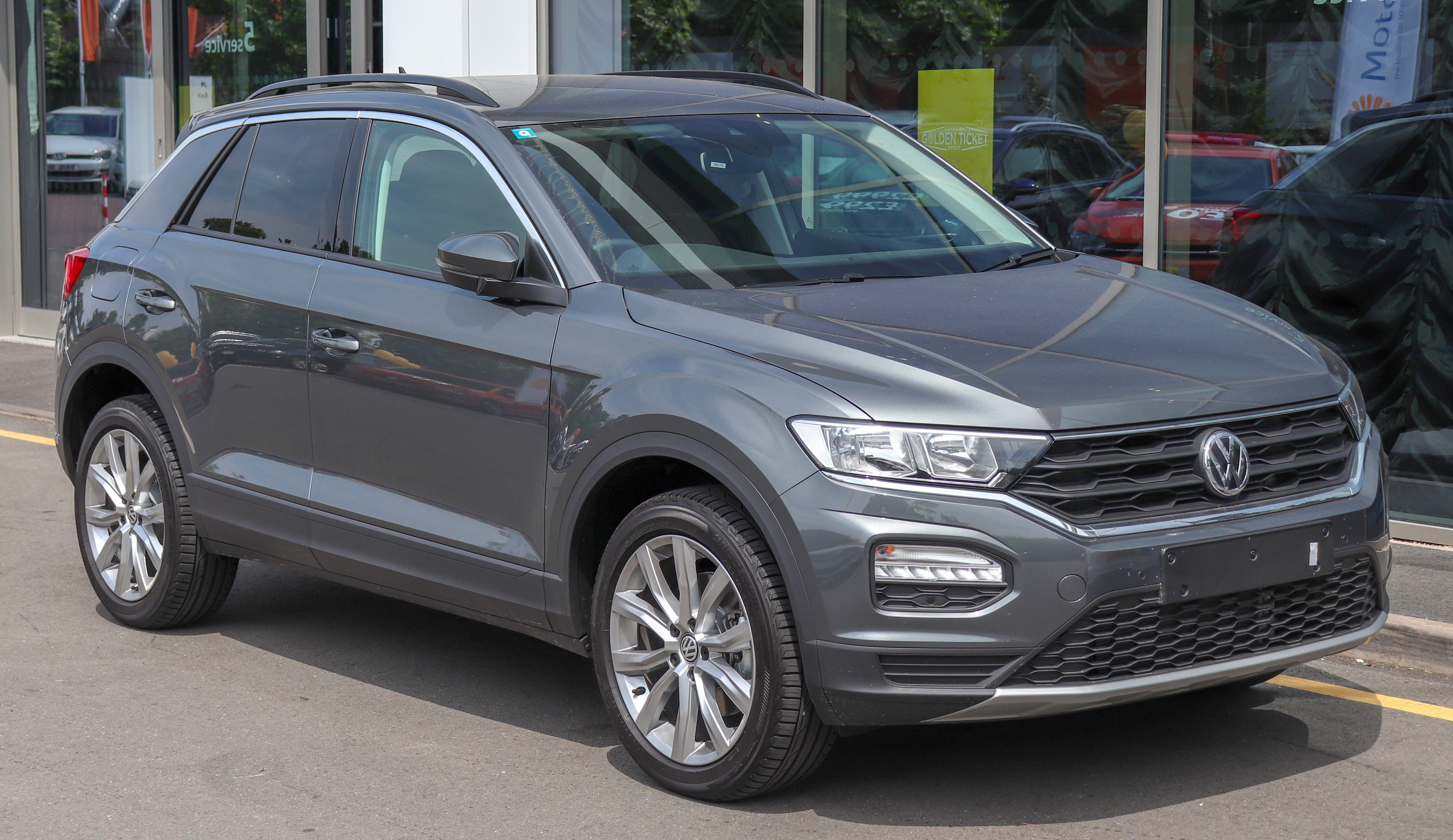 2018 Volkswagen T-Roc Front Taken in Solihull